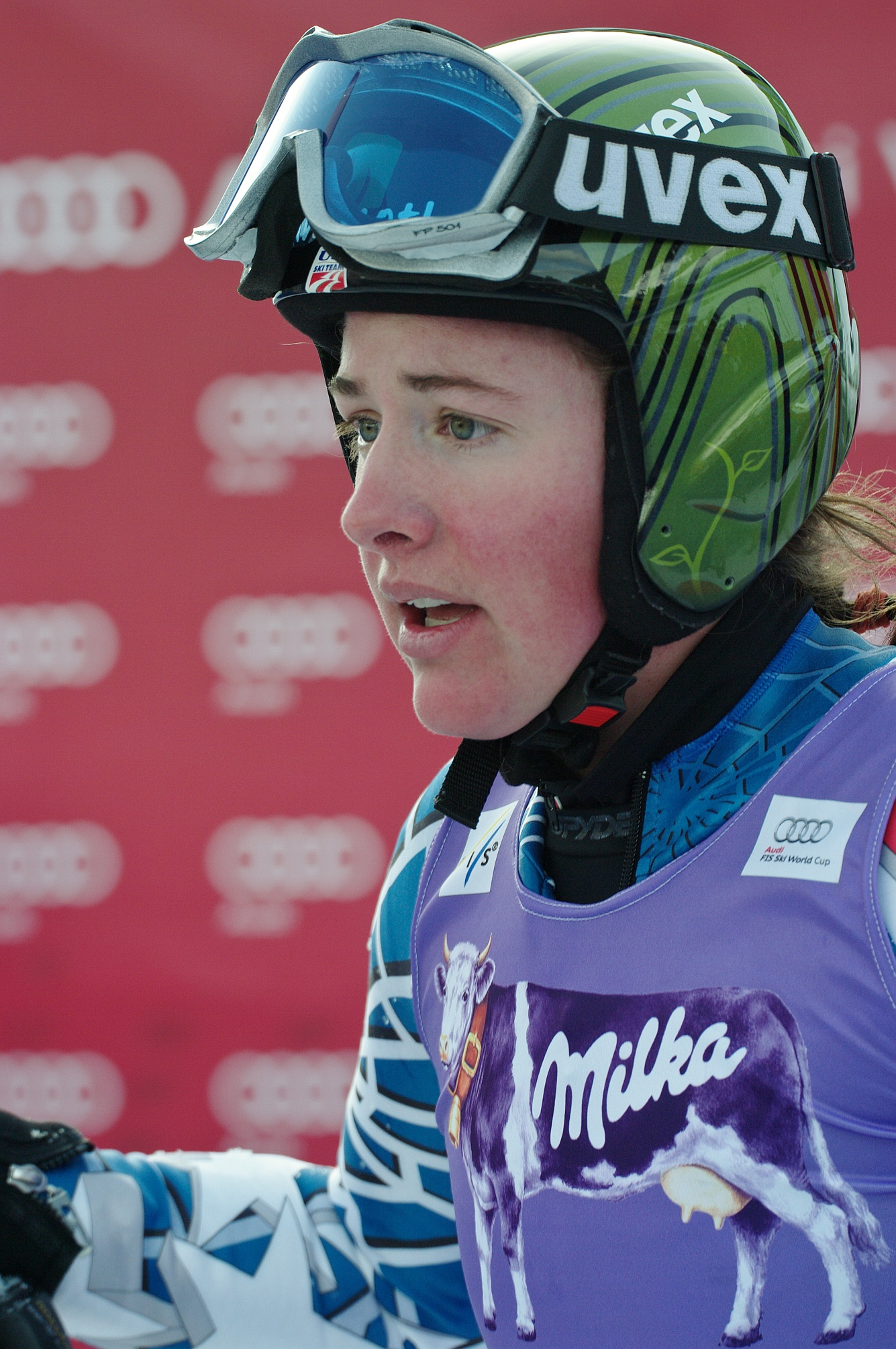 American alpine skier Stacey Cook after the second Downhill training in Altenmarkt-Zauchensee (Austria) on 7 January 2011.